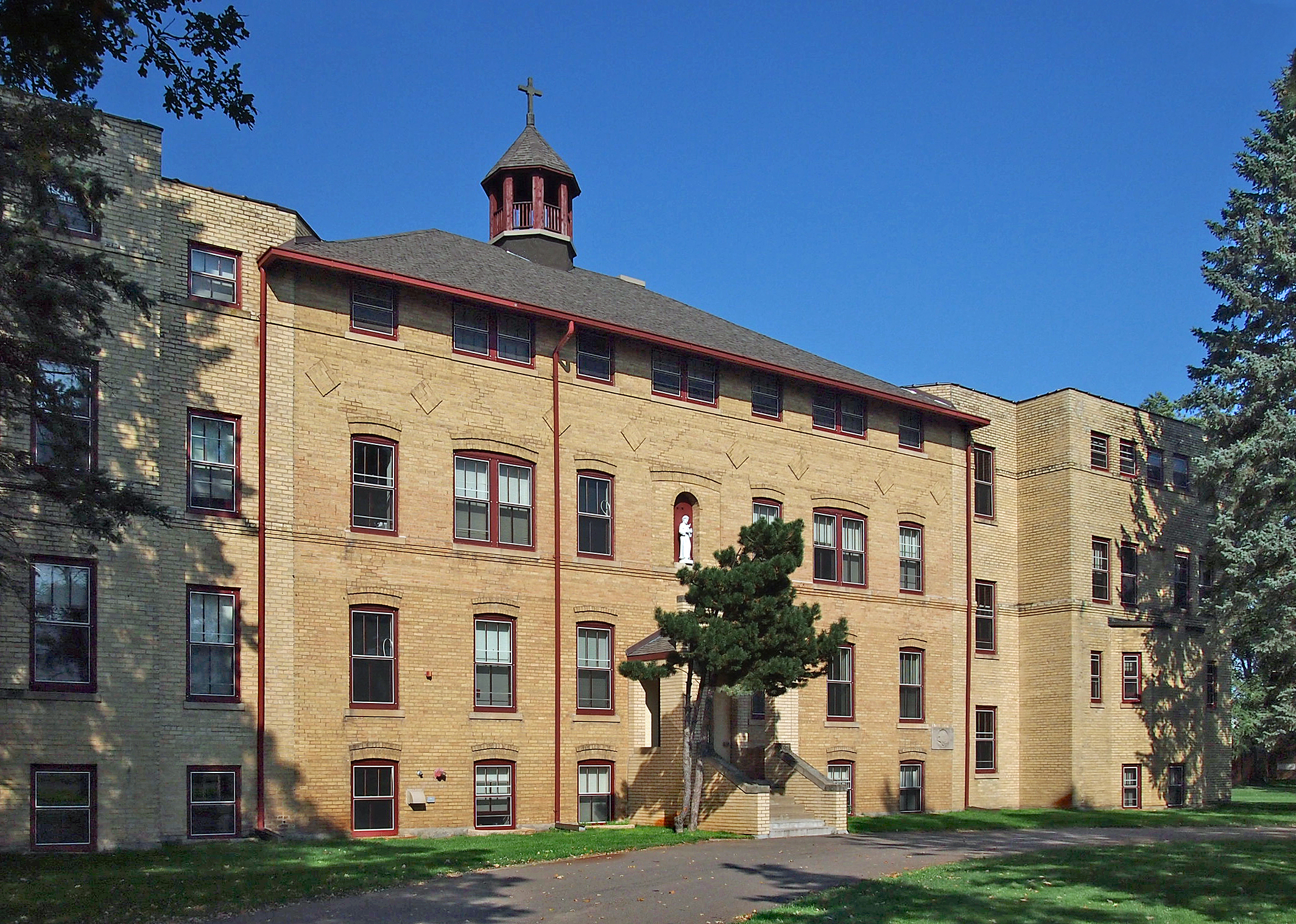 Our Lady of the Angels Academy, 18801 Riverwood Dr, Little Falls, Minnesota, USA. Viewed from the southeast.